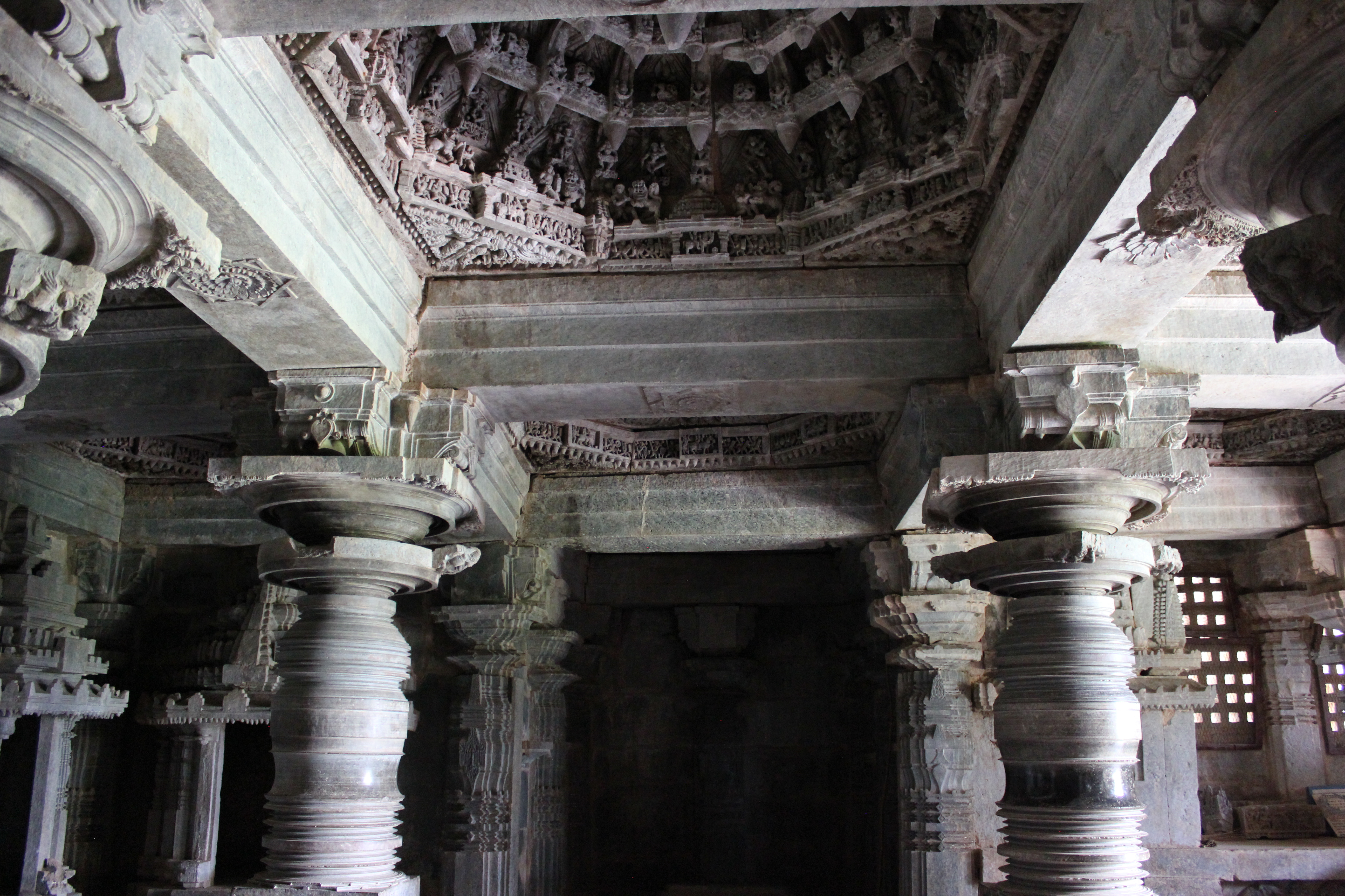 This photograph was taken at the Kedareshwara Temple (also spelt "Kedaresvara" or "Kedareshvara") in Halebidu, in the Hassan district of Karnataka state, India. The temple was constructed by Hoysala King Veera Ballala II (r. 1173-1220 A.D.) and his queen Ketaladevi.